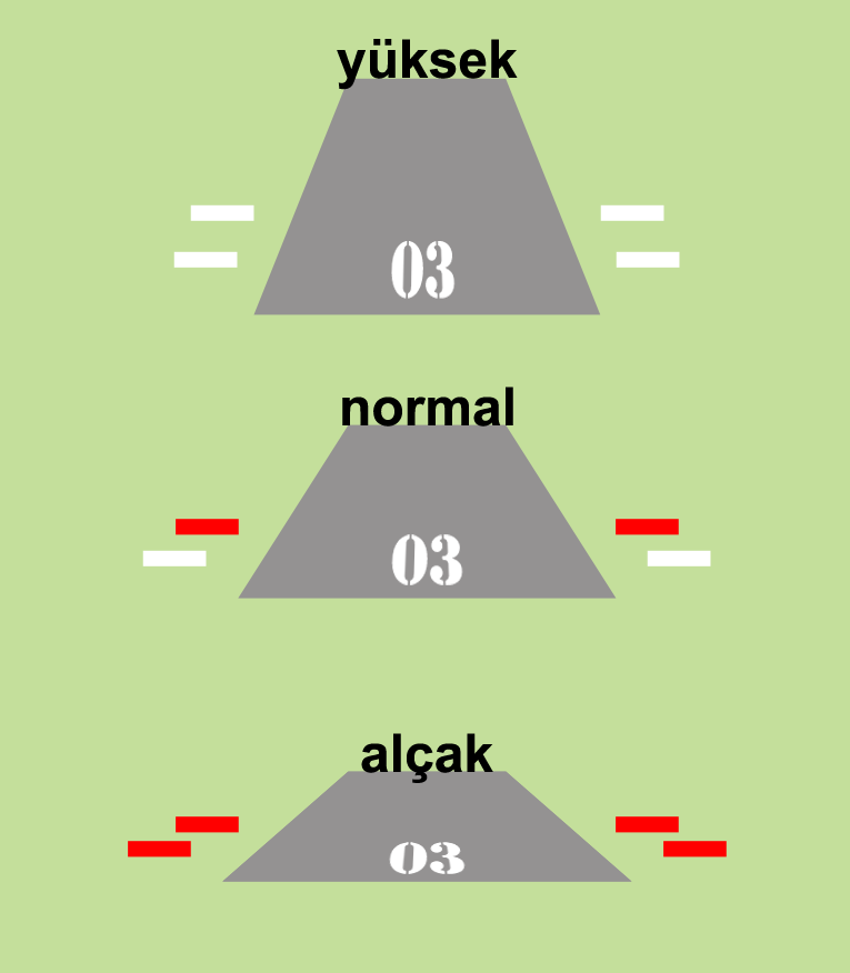 Visual Approach Slope Indicator